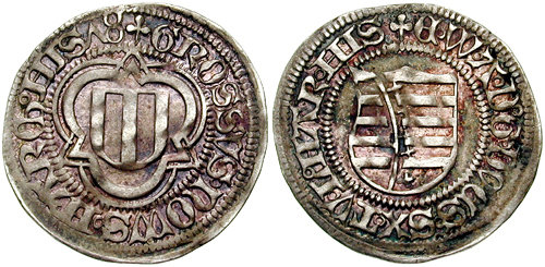 GERMANY, Saxony. Ernst, Wilhelm III, and Albrecht. 1465-1482. AR Spitzgroschen (22mm, 1.69 gm). Zwickau mint. Dated 1478. +GROSSVS•NOWS•MARCH•MIS 8, ducal coat-of-arms within triangle and trilobe / +E•W•A•D•G•DUCS•SX•TV•L•MAR•MIS, ducal coat-of-arms. Krug 1527; Frey 189; Saurma 4395. Toned, good VF. A select early dated example.